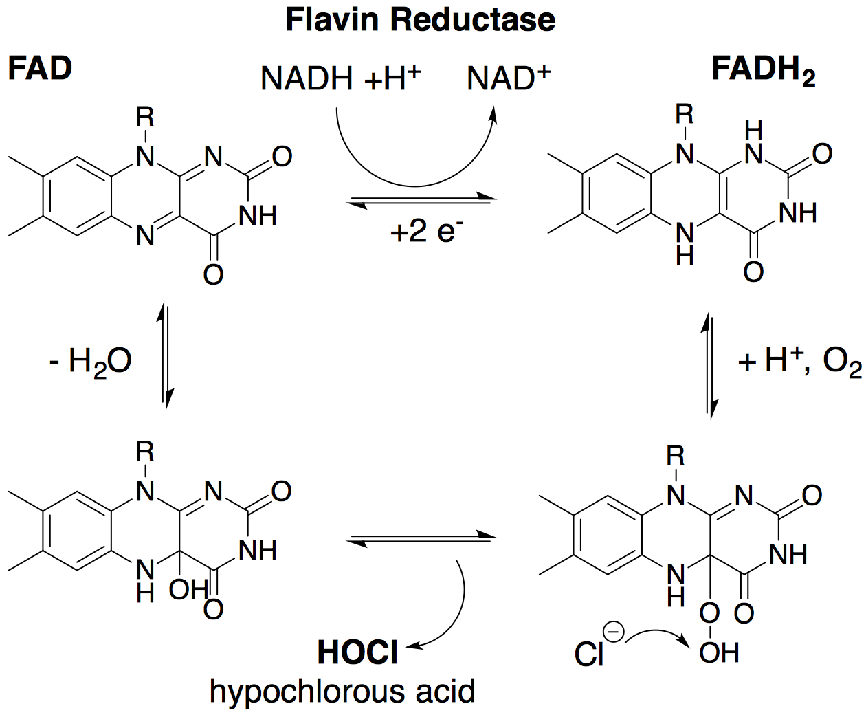 cycle of oxidation and reduction of FAD cofactor